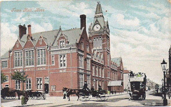 Image of the original Hove Town Hall in 1907.